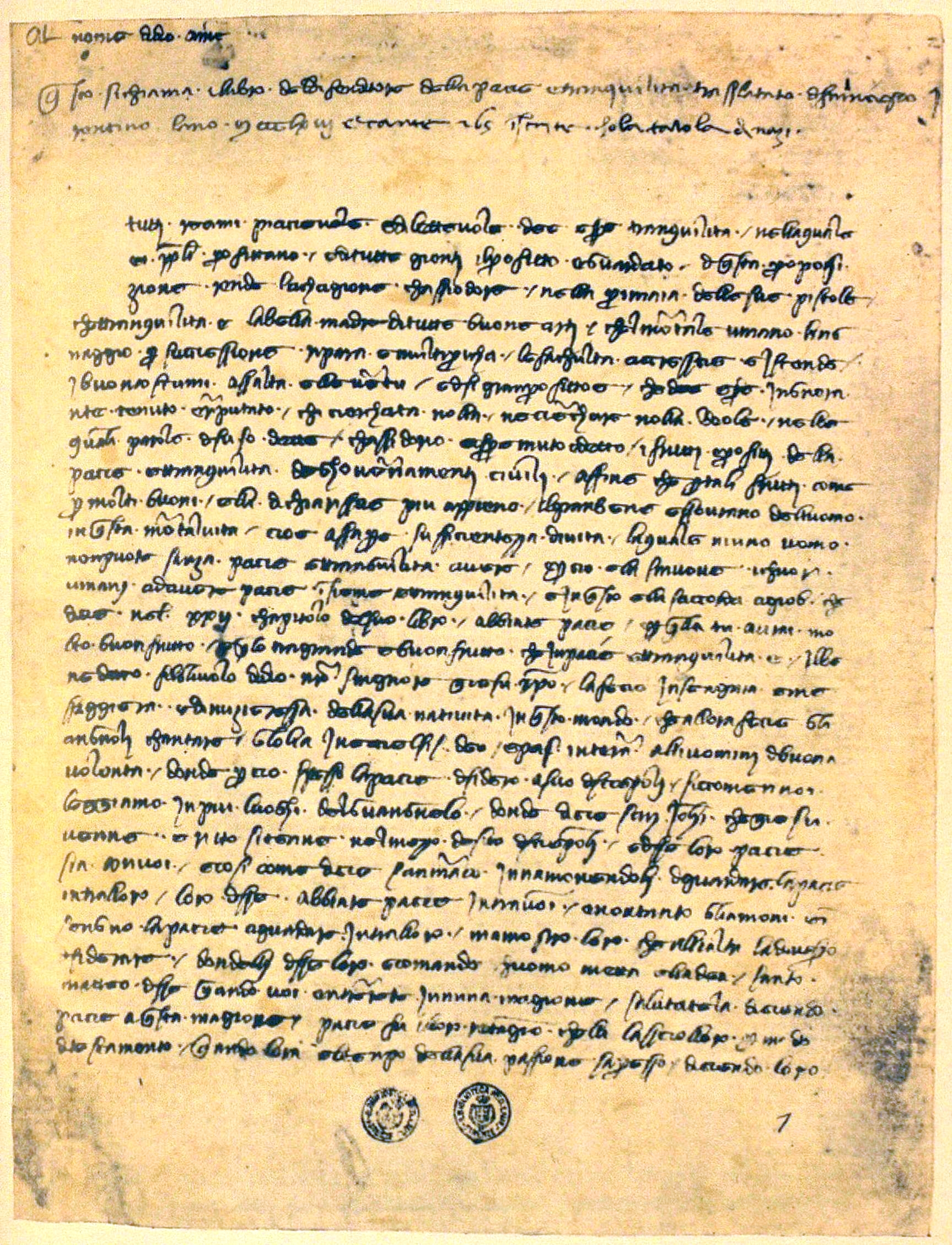 The beginning of the late medieval Italian translation of the Defensor pacis.